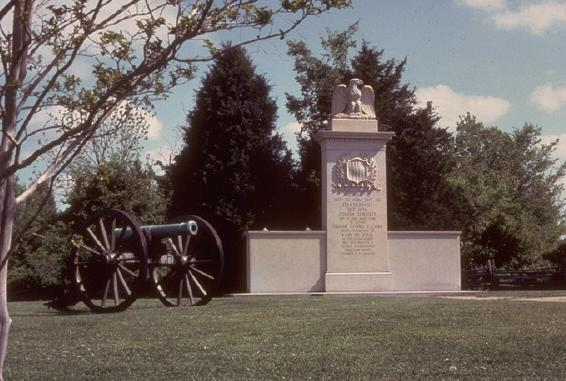 Memorial and cannon at Brices Cross Roads National Battlefield Site near Baldwyn, Mississippi. 34°30′22″N 88°43′44″W / 34.50611°N 88.72889°W